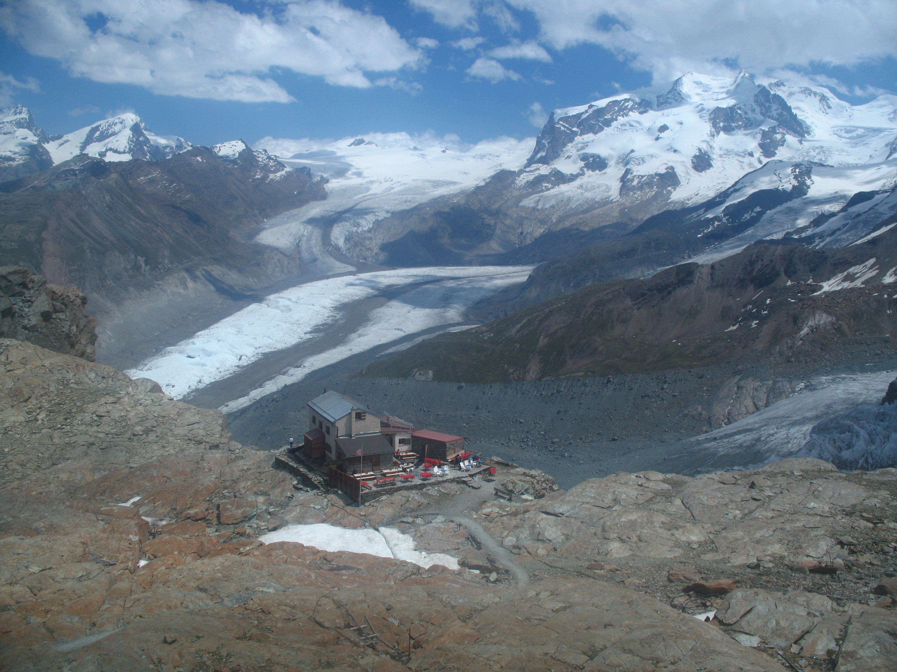 Gandegg Hut / Restaurant Trockener Steg and Gornergrat viewed from Klein Matterhorn, Switzerland